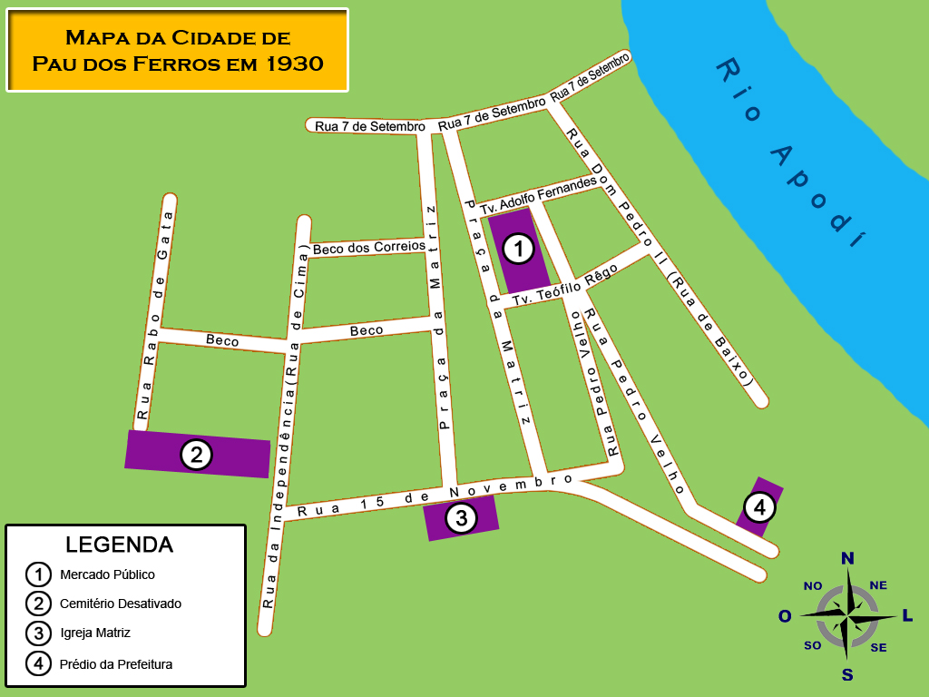 Map representing the city of Pau dos Ferros in the 30' to 40' of the twentieth century.